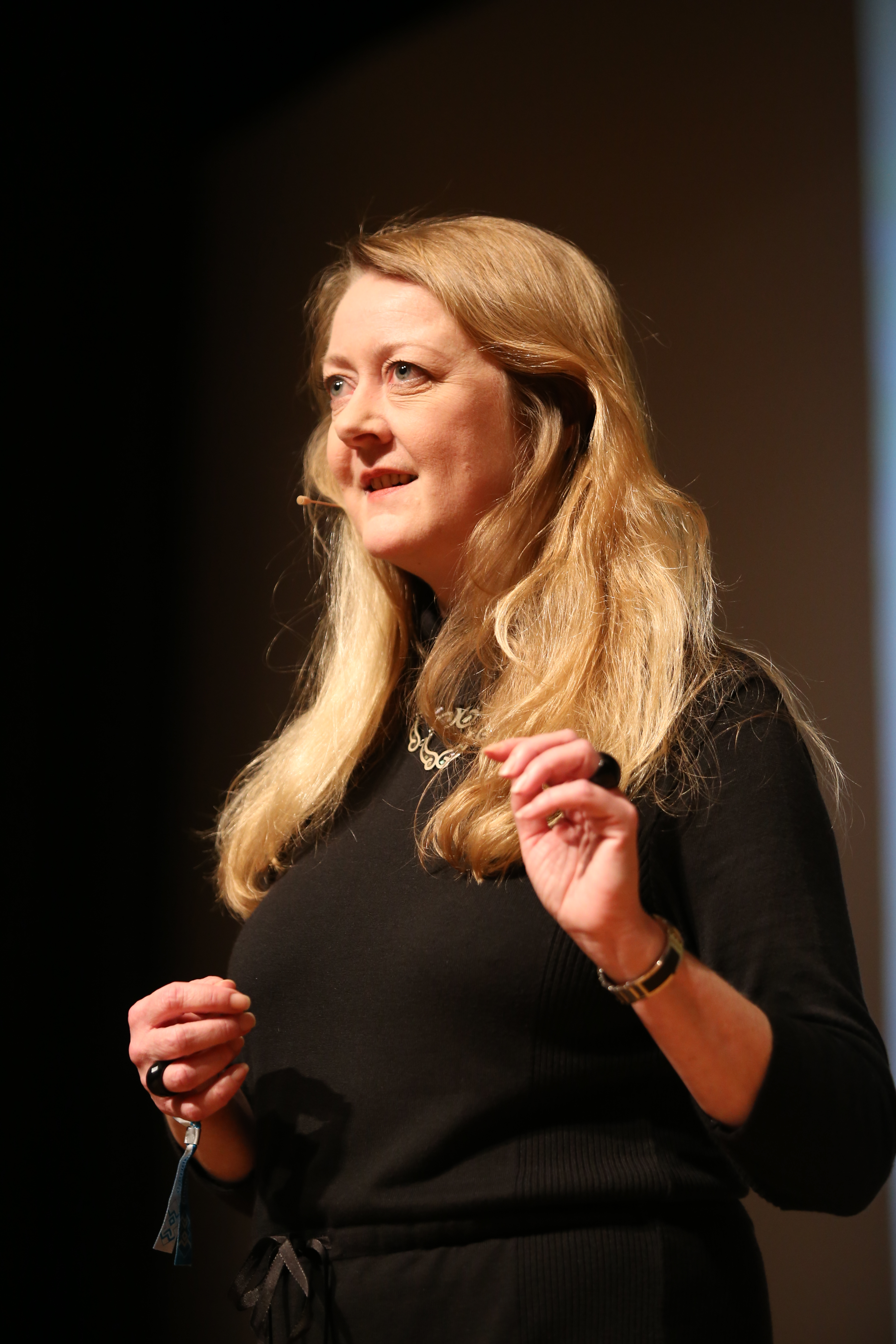 Annie Machon at the 30th Chaos Communication Congress in Hamburg, 2013